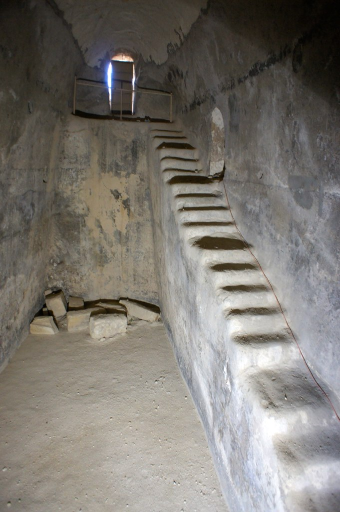 Many were dug later, during the Bar Kochba rebellion (this is the same Simon Bar Kochba who died at Masada), to evade the Romans (66 C.E.)